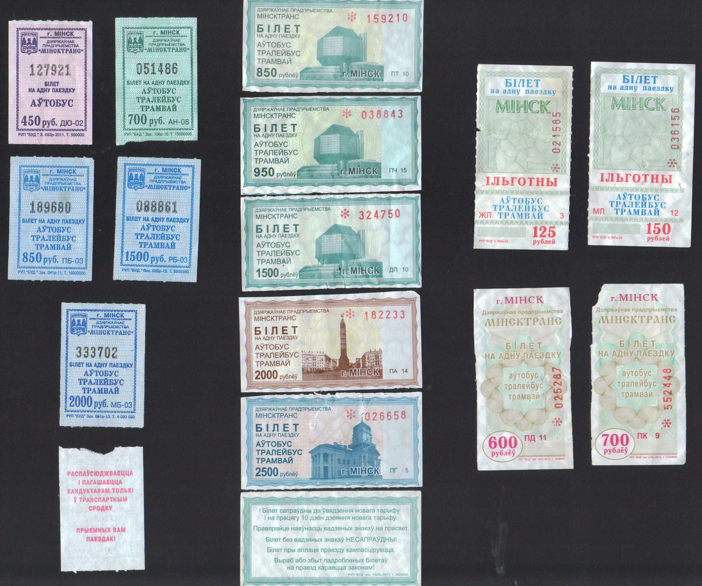 One-time tickets for public transport in Minsk from 2003 to 2013.